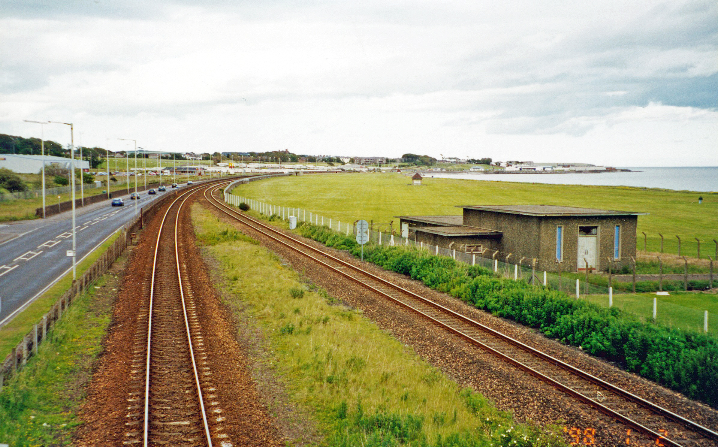 Site of former Elliot Junction station. View NE beside A92 road, towards Arbroath, Montrose and Aberdeen: ex-NB & Caledonian (Dundee & Arbroath) Joint main line, (Edinburgh/Glasgow) - Dundee - Arbroath - Montrose - Aberdeen, junction of Carmyllie branch. The station closed 4/9/67, the branch had closed to passengers 1/12/29, to goods 24/5/65